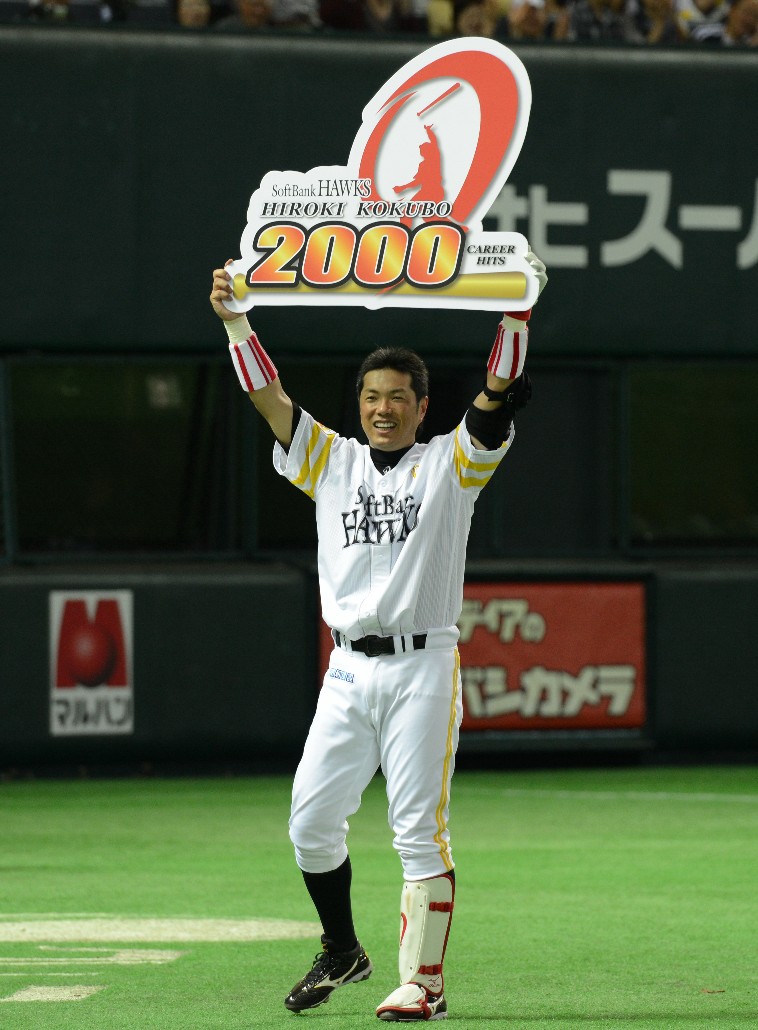 Hiroki Kokubo, infielder of the Fukuoka SoftBank Hawks, after getting 2000th hit of his career, at Fukuoka Dome